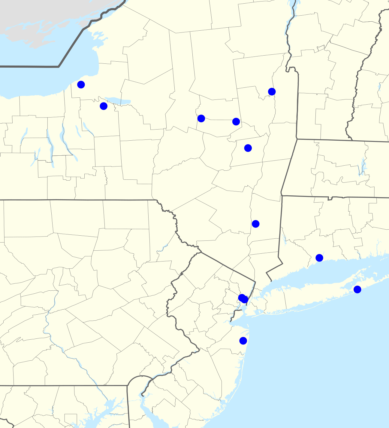 New York Mets Radio Network: map of radio affiliates. Not pictured: WPSL, Port St. Lucie, Florida.